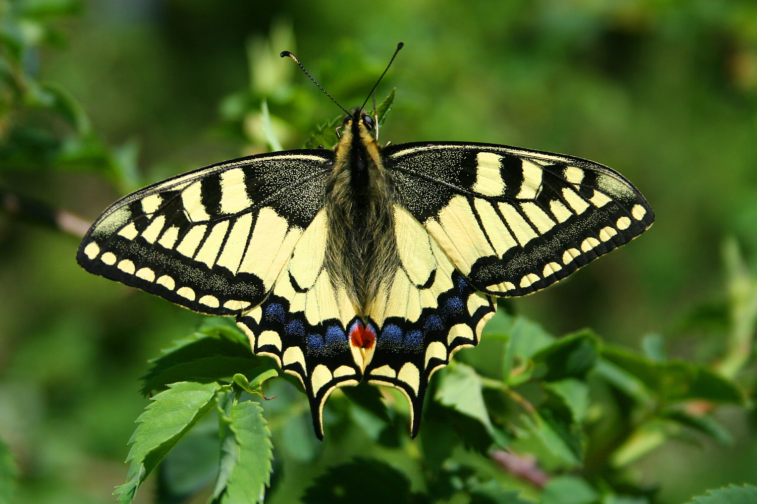 Swallowtail butterfly, Annevoie-Rouillon, Belgium – Castle park.